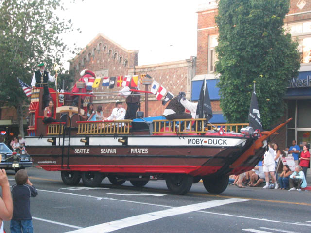 The Seafair Pirates and their converted DUKW, Moby Duck. Photographed by Walter Taucher